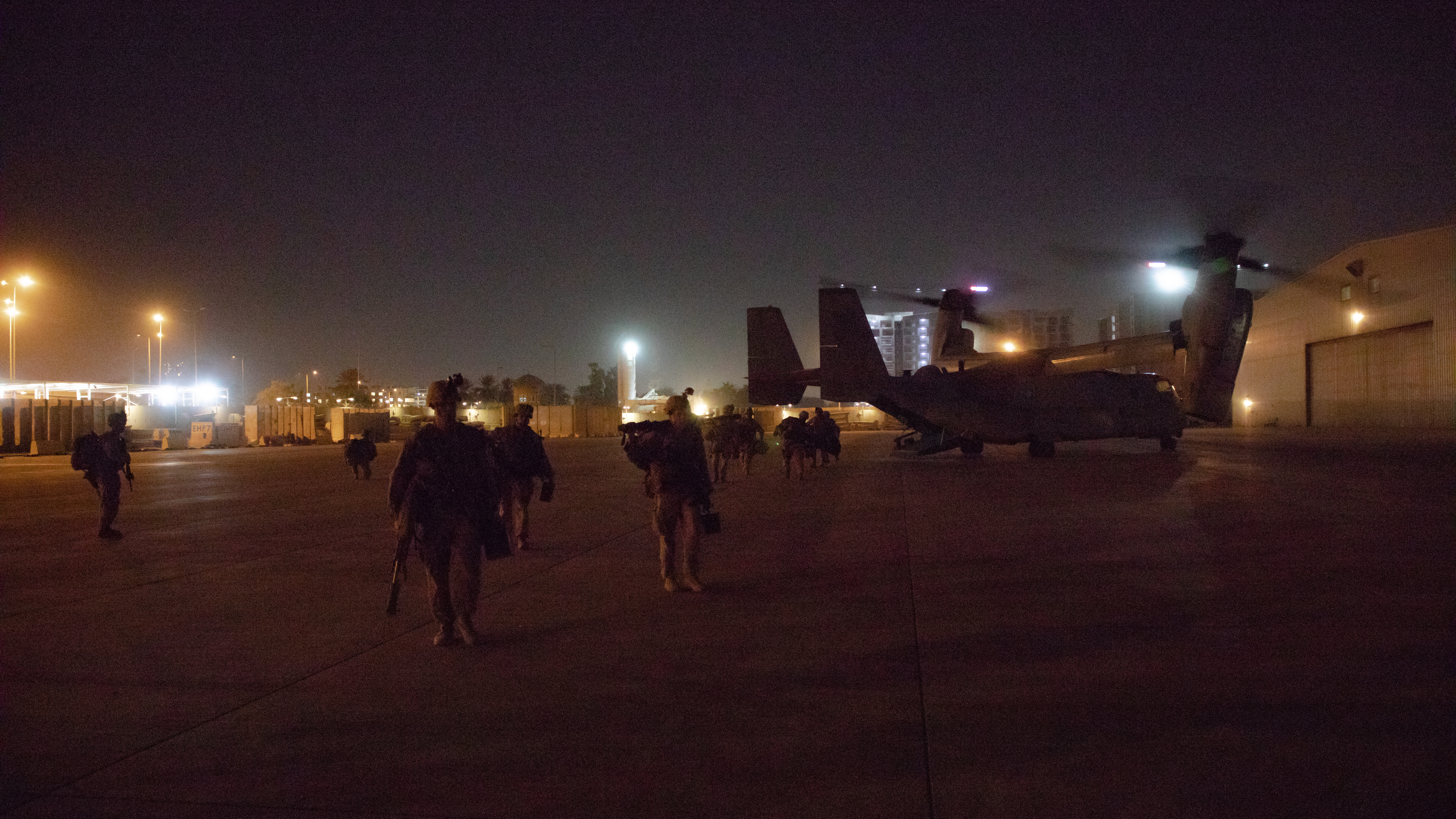 U.S. Marines with 2nd Battalion, 7th Marines, assigned to the Special Purpose Marine Air-Ground Task Force-Crisis Response-Central Command (SPMAGTF-CR-CC) 19.2, depart from an MV-22 Osprey to reinforce the Baghdad Embassy Compound in Iraq, Dec. 31, 2019. A Marine Air Ground Task Force is specifically designed to be capable of deploying aviation, ground, and logistics forces forward at a moment’s notice. (U.S. Marine Corps photo by Sgt. Kyle C. Talbot)